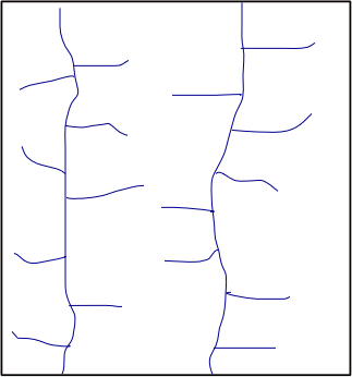 Trellis drainage pattern Free for all use Author:Eurico Zimbres